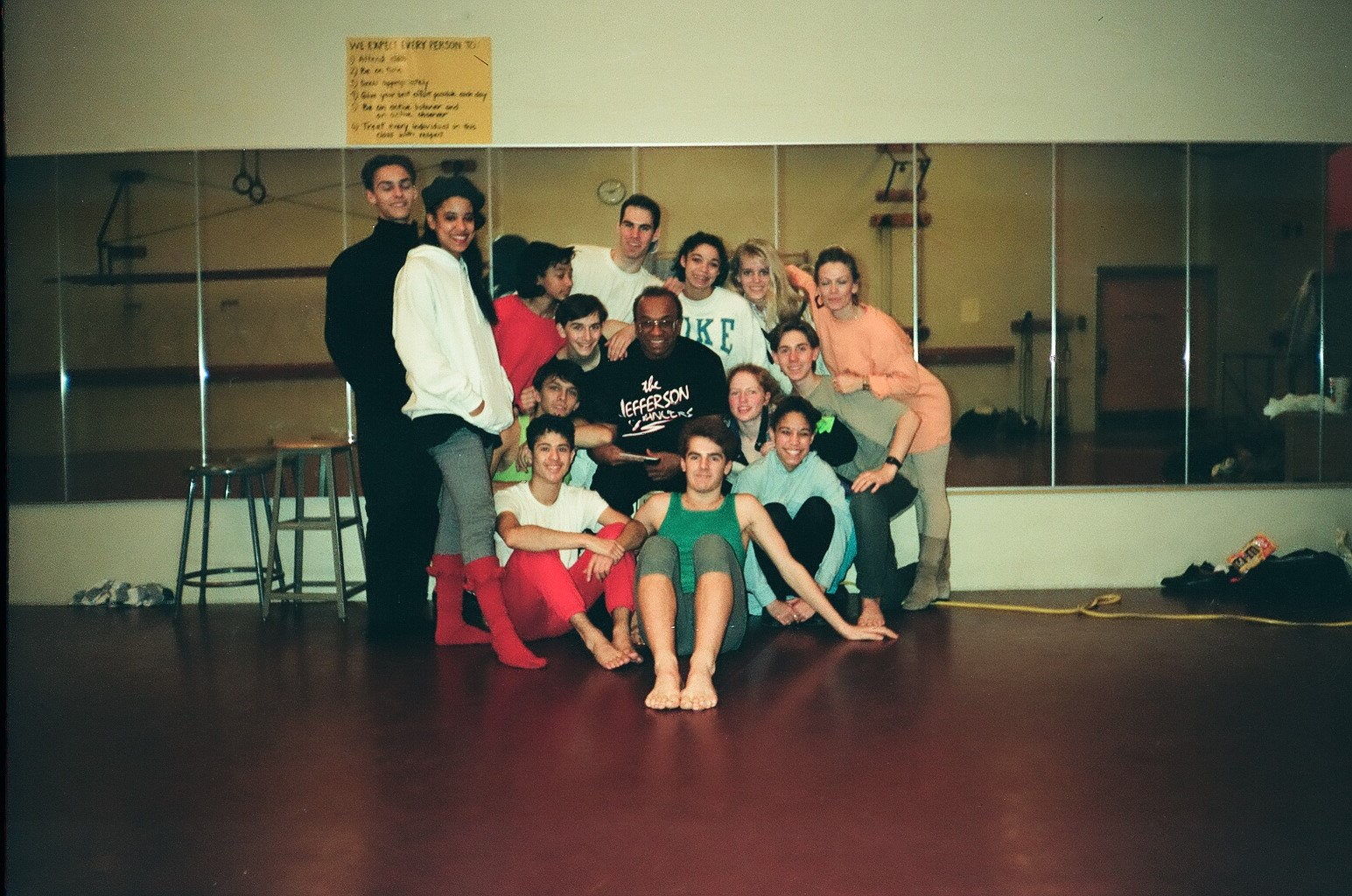 Choroegrapher Donald McKayle posed with the 1991/1992 The Jefferson Dancers company, after a week-long rehearsal wherein he set two dance pieces on the company: "Games," and "Rainbow Round My Shoulder."